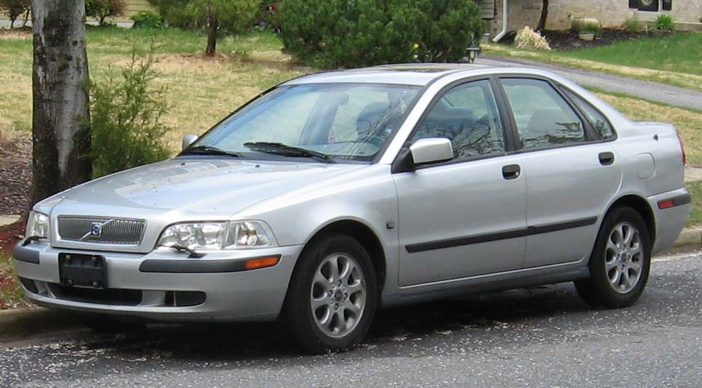 2000-2004 Volvo S40 photographed in USA.